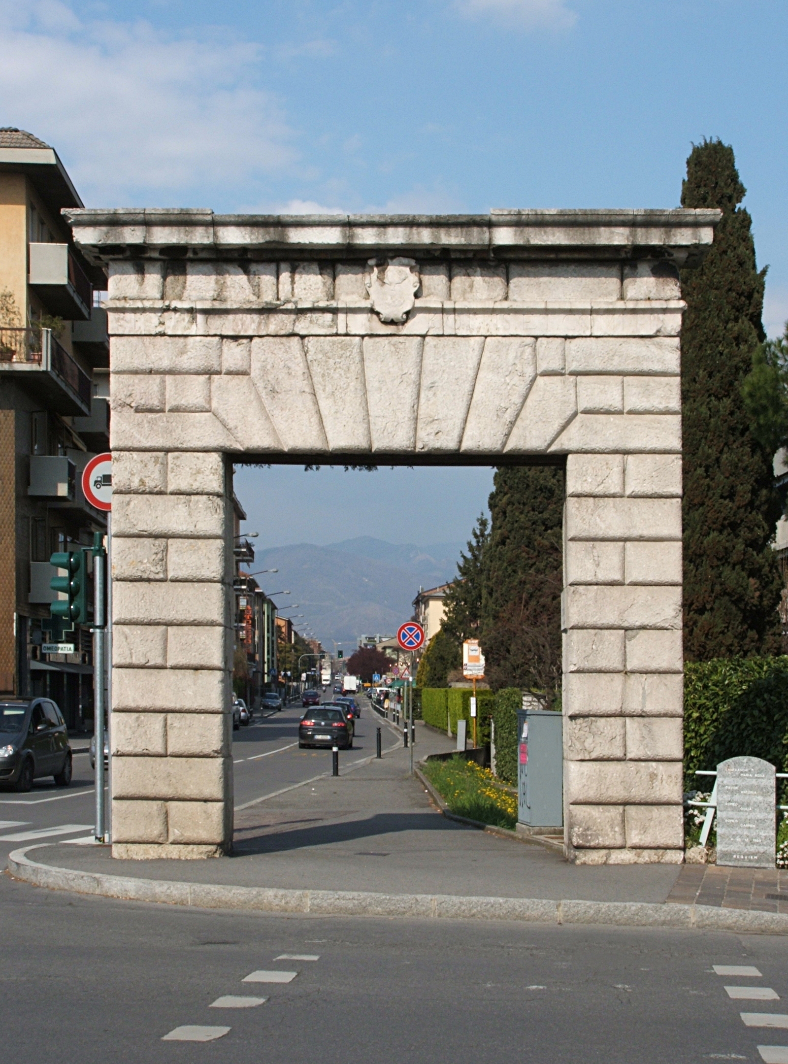 Bergamo, Lombardy, Italy – Porta del diavolo (devil gate)